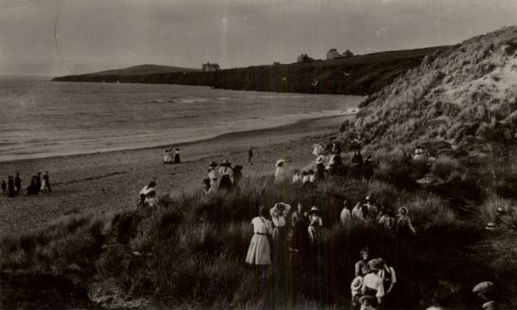 A postcard of Patch beach, near Gwbert-on-Sea, pre-1918